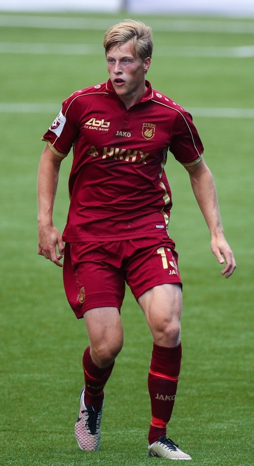 Emil Bergström in match FC Orenburg - FC Rubin on 08/27/16